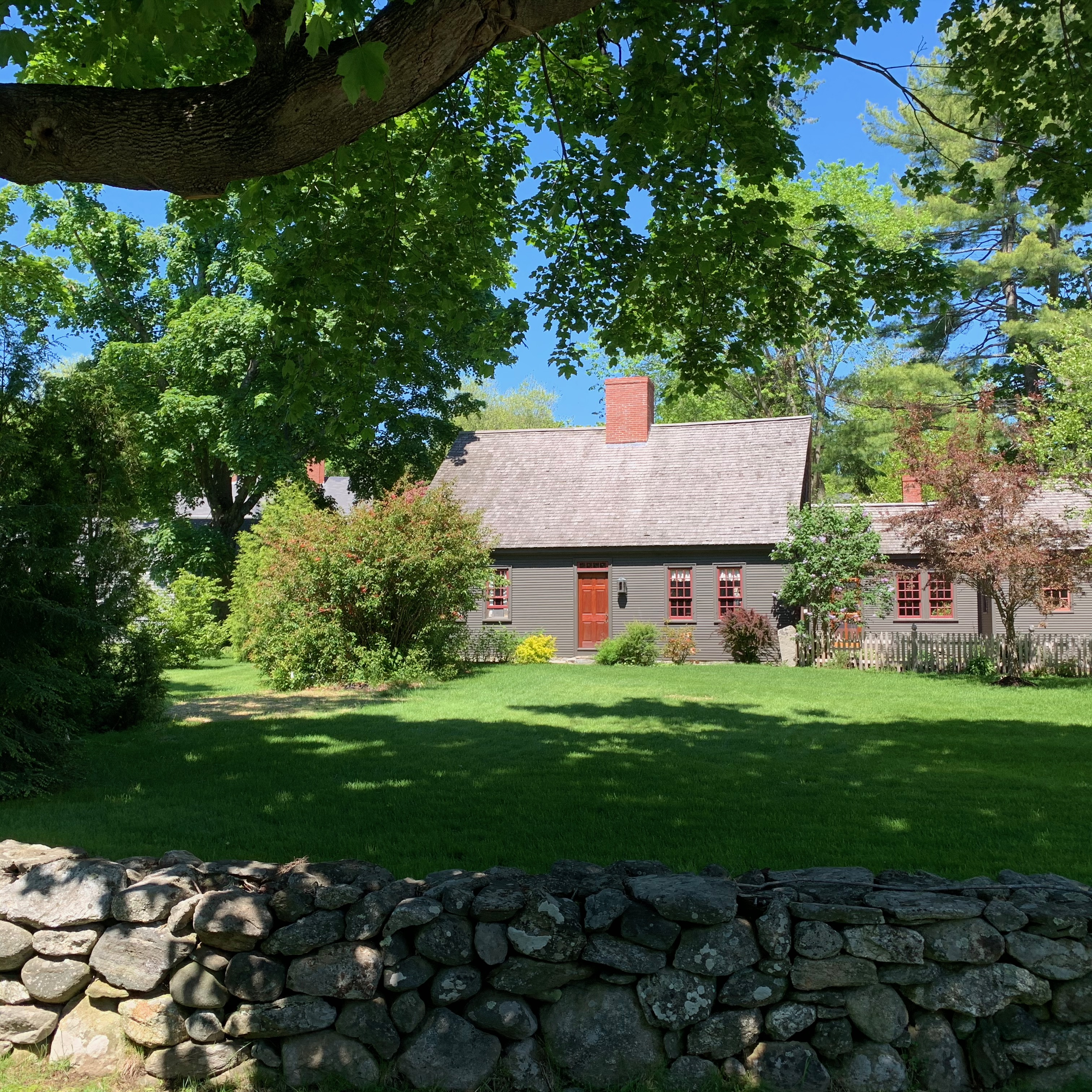 1777 house, Yarmouth, Maine